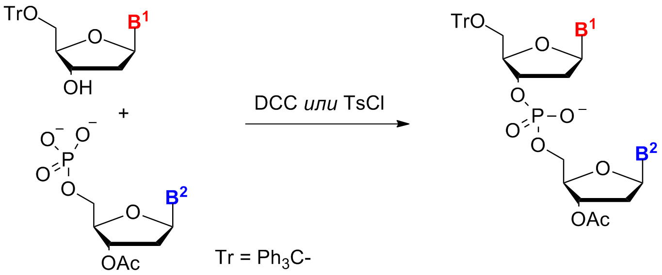 Phophodiester oligonucleotide synthesis